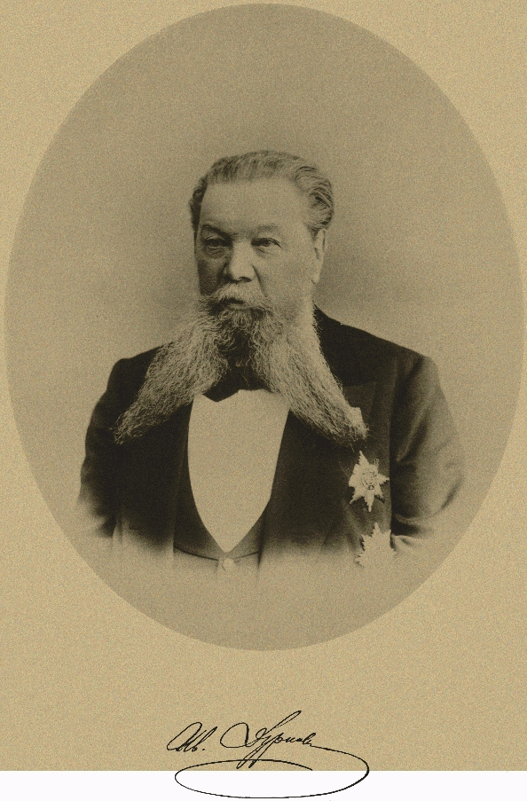 Ivan Nikolayevich Durnovo